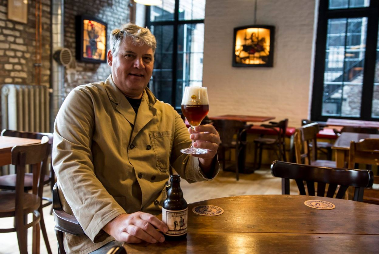 Bierprobe Bosch Ridderzaal